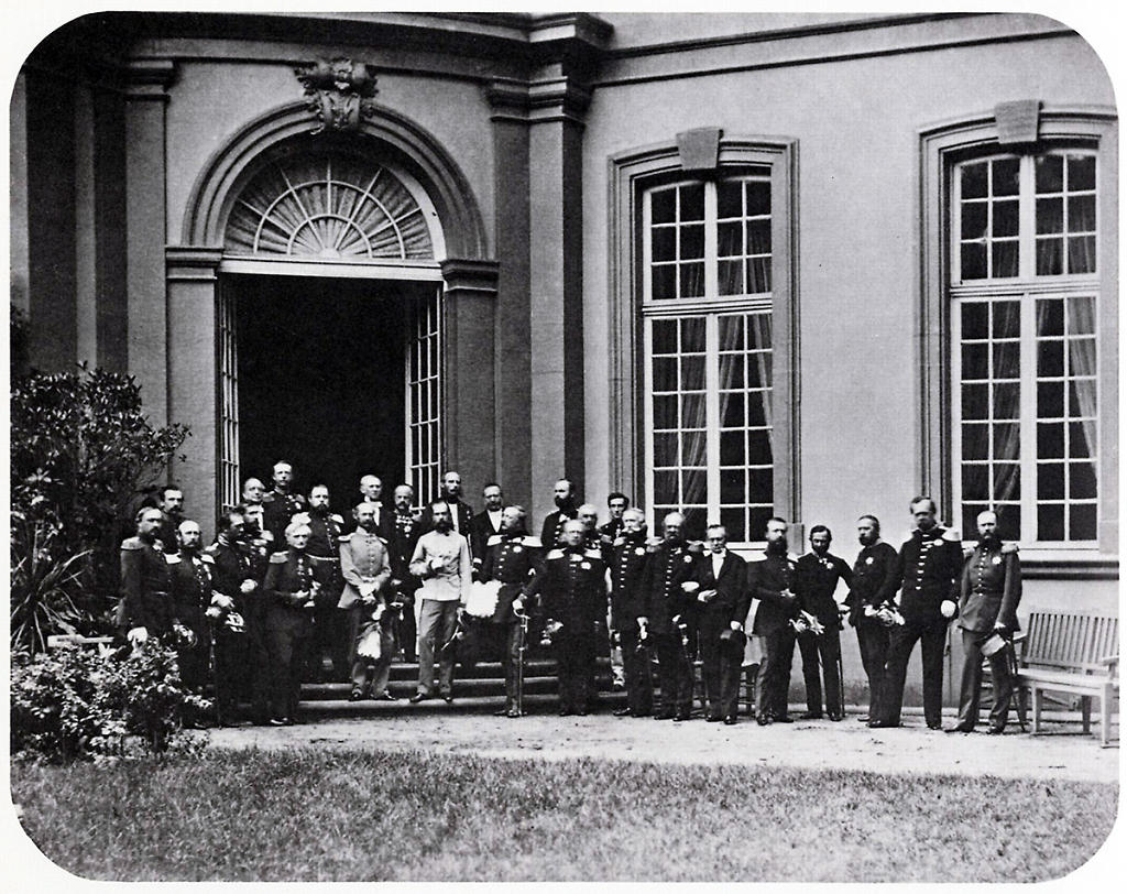 Frankfurt am Main, Germany, September 1, 1863